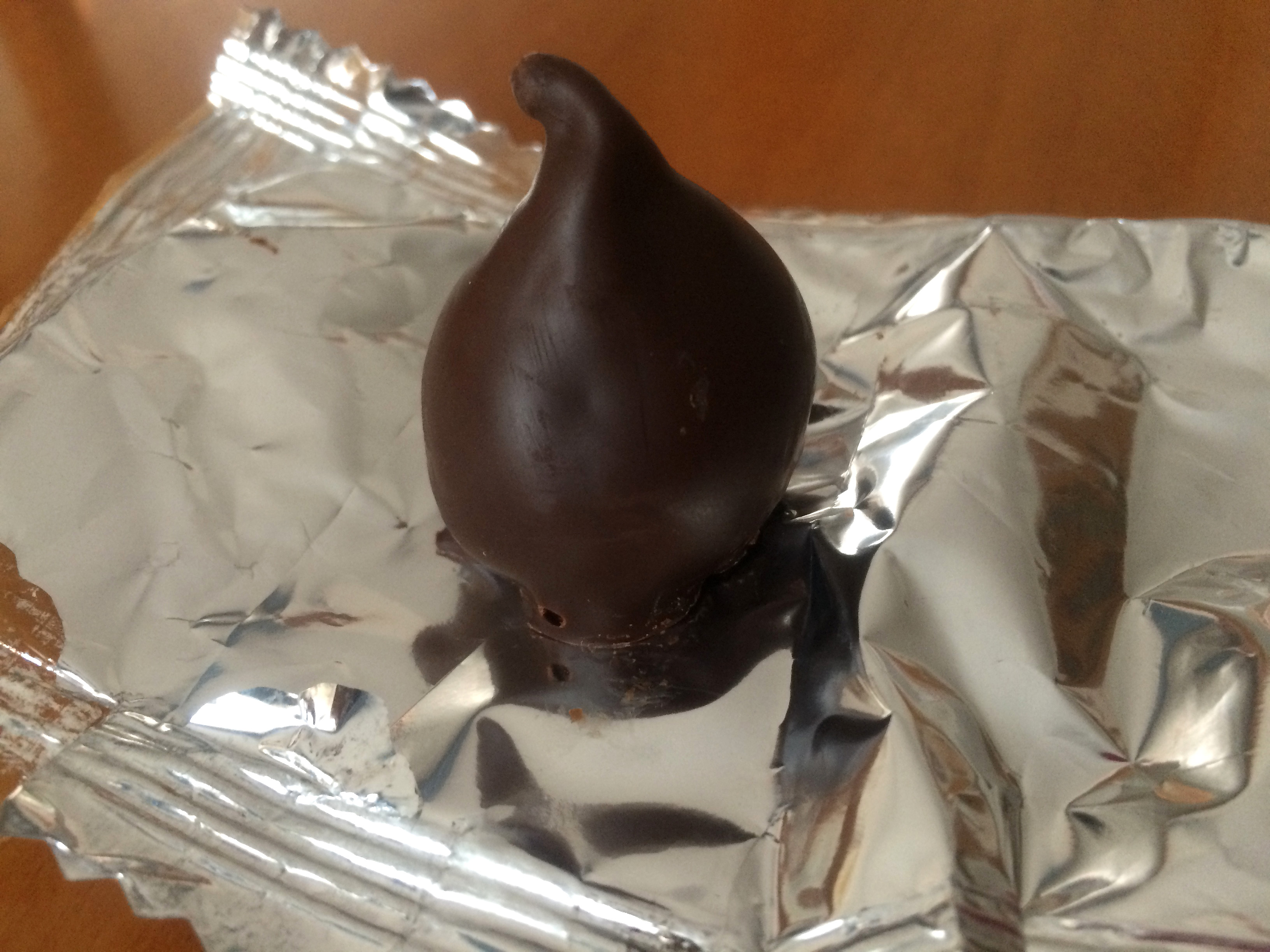 Fig with chocolate bonbon, made in Almoharín (Spain)